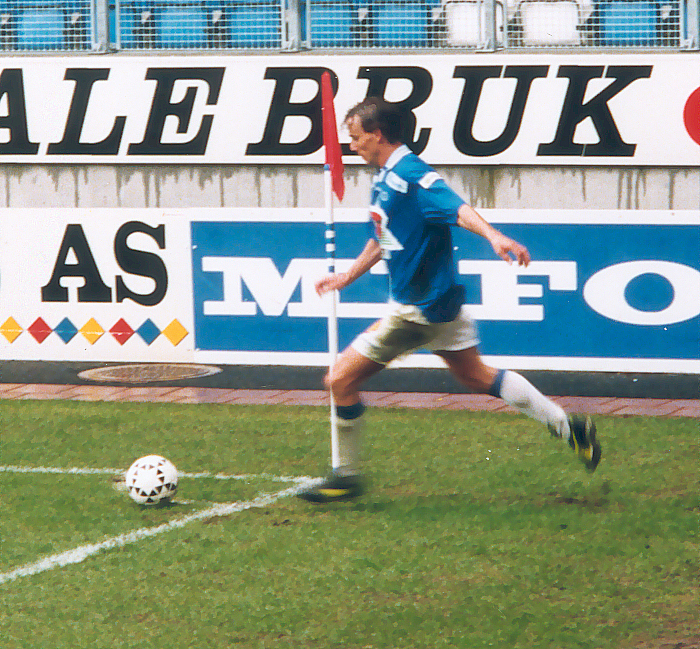 Molde F.C. player Odd Inge Olsen in a match against Tromsø I.L.